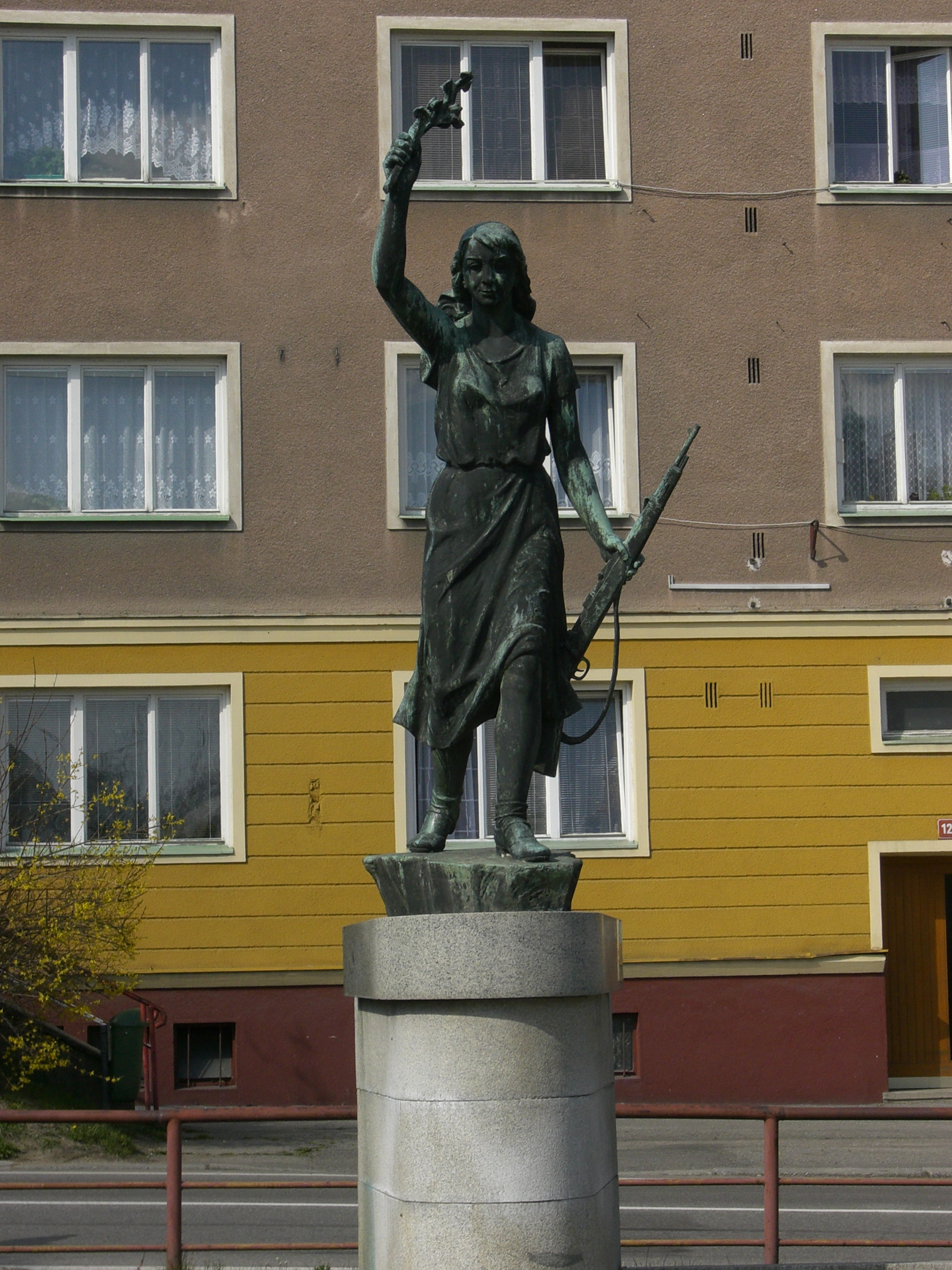 Milevsko Town in the Písek district, Czech Republic. Statue in the fountain on the square of Edvard Beneše.